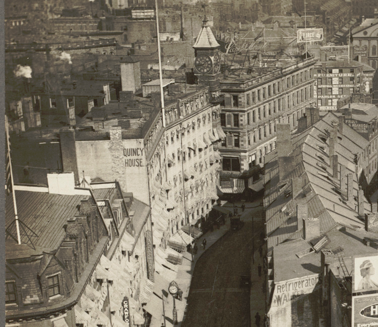 Quincy House hotel on Brattle Street, c. 1920. Cropped version of